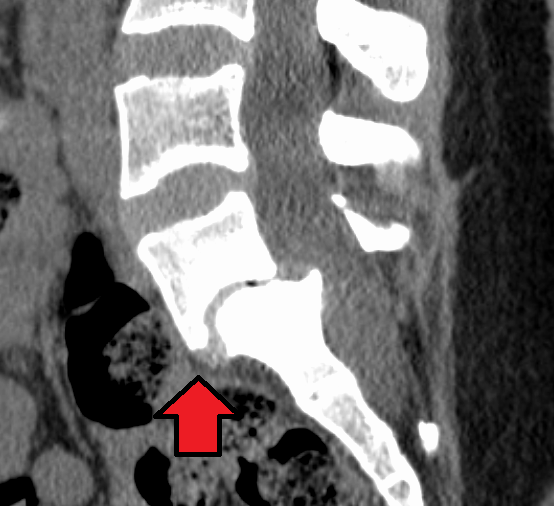 Spondylolisthesis L5/S1